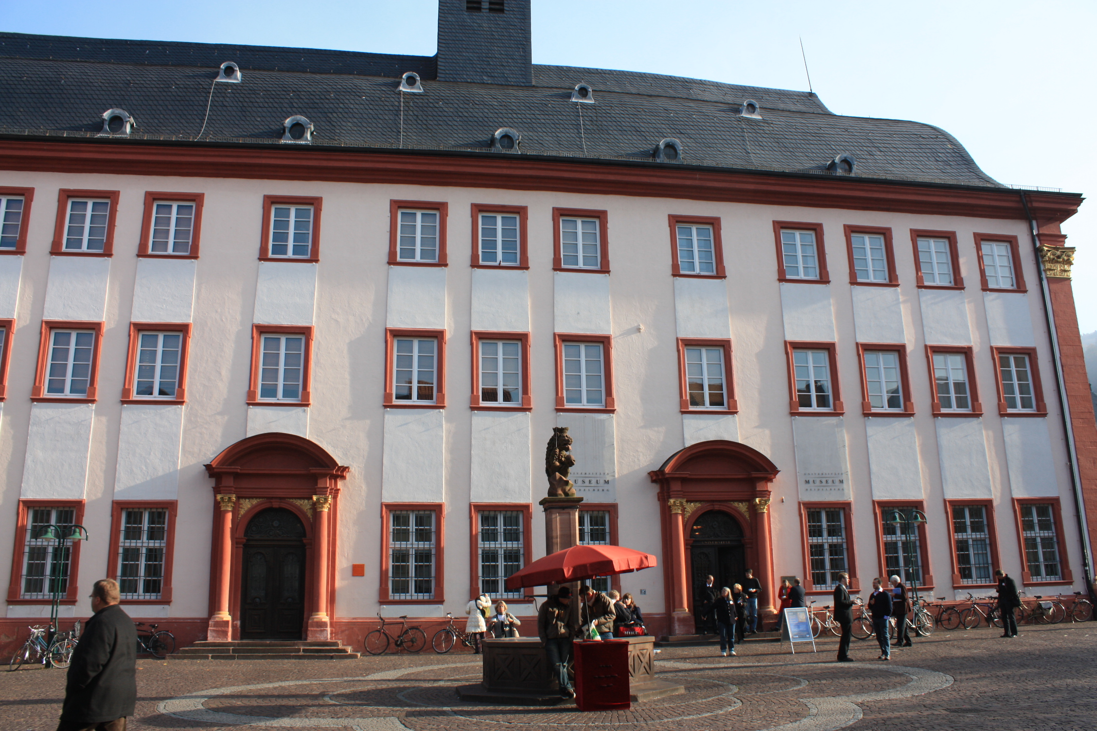 Alte Universität building (Heidelberg)